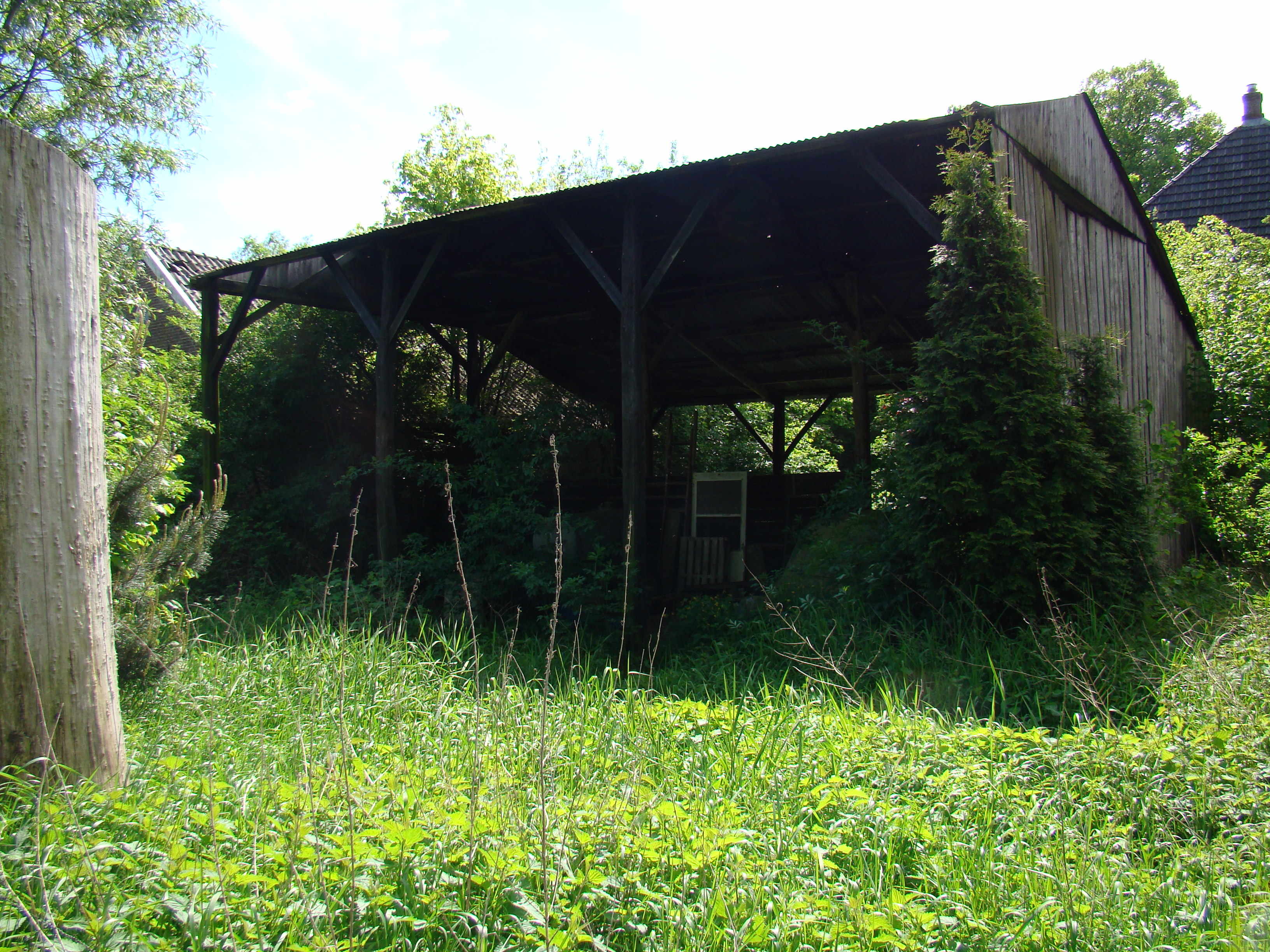 Misterstraat 85 Bredevoort